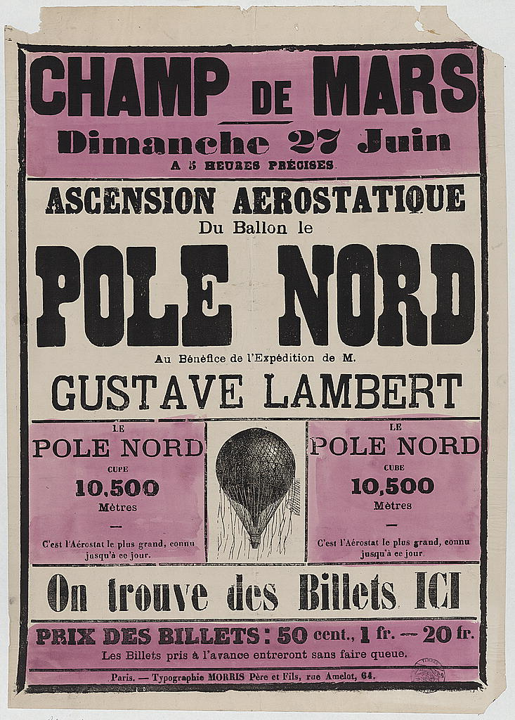 "Champ de Mars, dimanche 27 juin, a 5 heures préciss. Ascension aérostatique du ballon le Pole Nord au bénéfice de l'expédition de M. Gustave Lambert." Library of Congress description: "Broadside announcing an ascension of the giant balloon "Le Pole Nord" from the Champ-de-Mars, Paris, June 27, 1869. Proceeds from the event, organized by balloonists Wilfrid de Fonvielle and Gaston Tissandier, to support Gustave Lambert's North Pole ballooning expedition. Includes picture of balloons in flight."